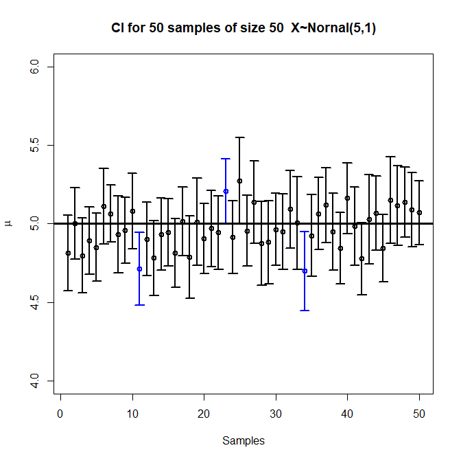 Plot of 50 confidence intervals from 50 samples generated from a normal distribution. This plot was generated our R using CIplot function located in the plotrix library